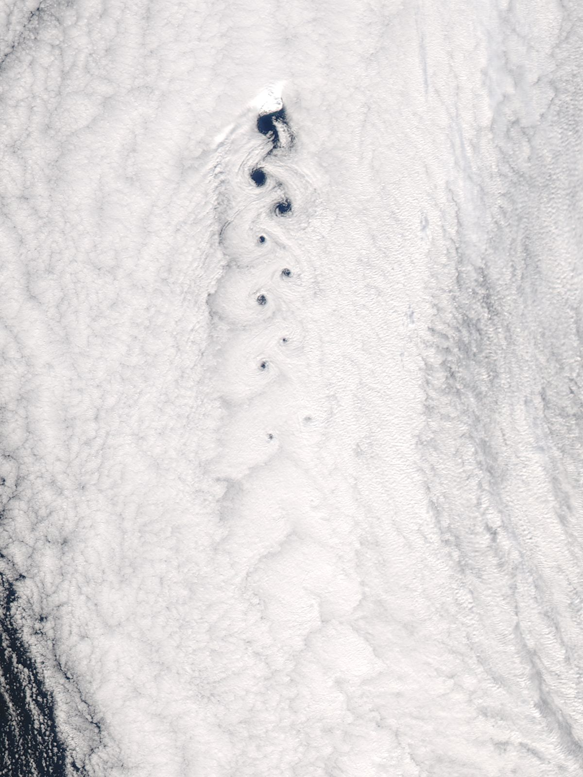 Satellite view of Jan Mayen island with a Von Kármán vortex street shown by cloud vortices, Greenland (on the top) and Norway (on the bottom) Seas